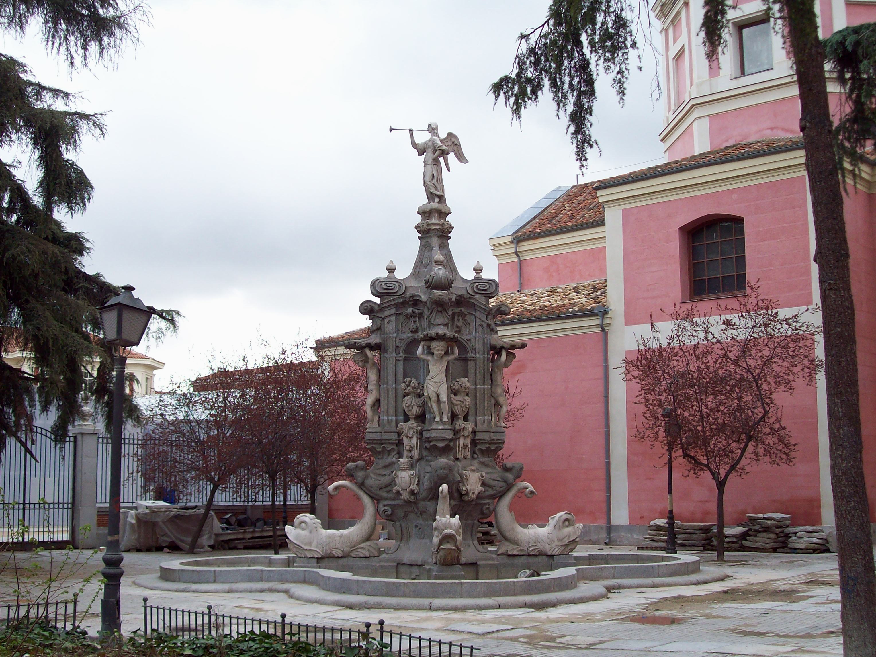 View of the Fountain of Pheme in Madrid (Spain).